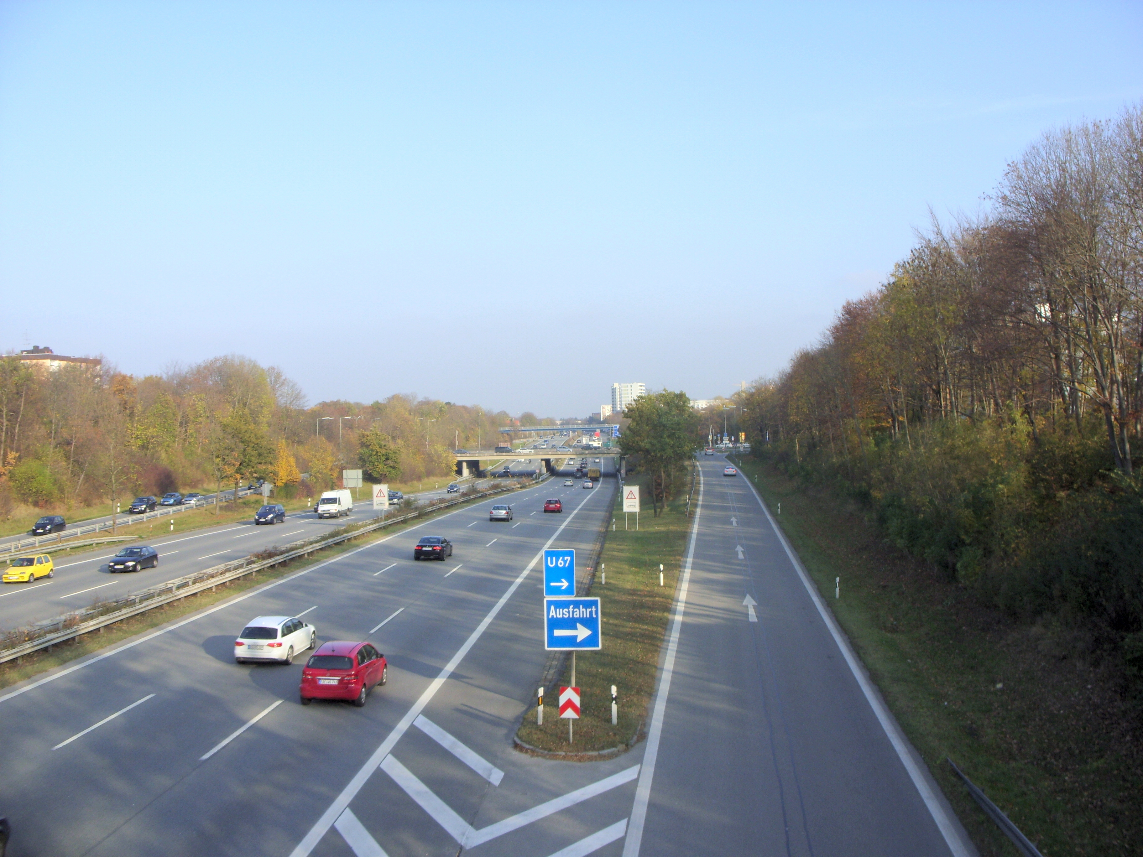 Bundesautobahn 96 - Exit Munich Blumenau (37)